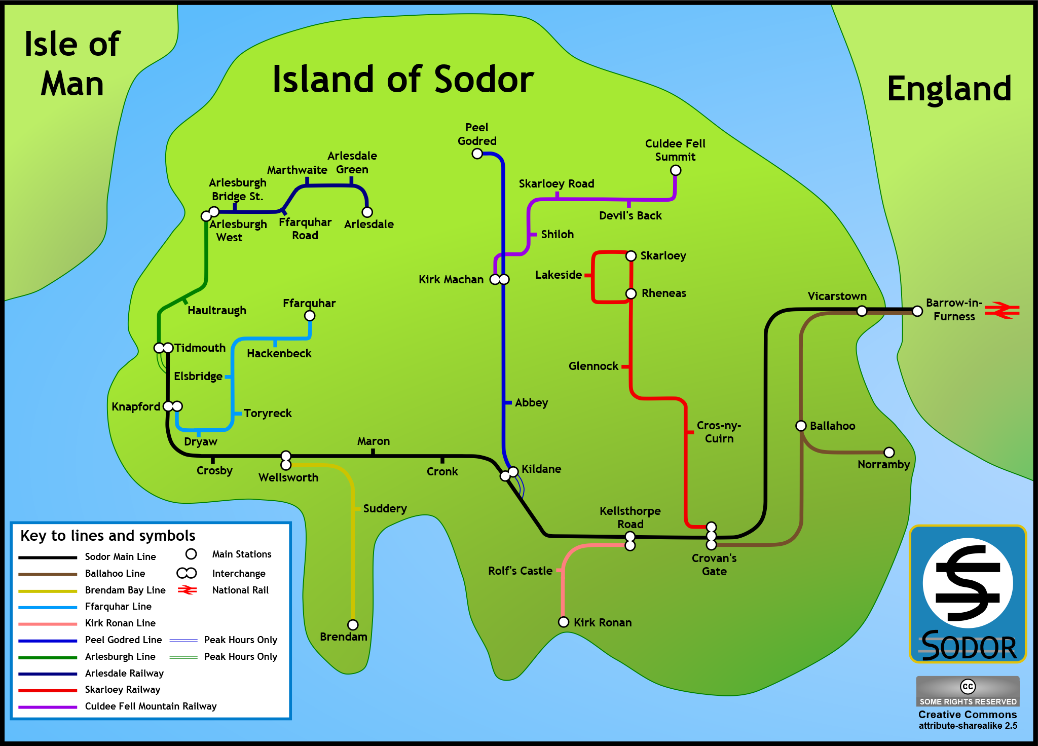 A map of the Island of Sodor showing the Railway system (click to enlarge). A map of the Island of Sodor from The Railway Series by Rev. W. Awdry. Drawn by AmosWolfe on 11th September 2005, using the software package Serif DrawPlus, in the style of the London Underground maps by Harry Beck A number of different maps of this island, including an original painted by Rev. Awdry can be found on this excellent website. Source files for my vector-based drawings can be found here